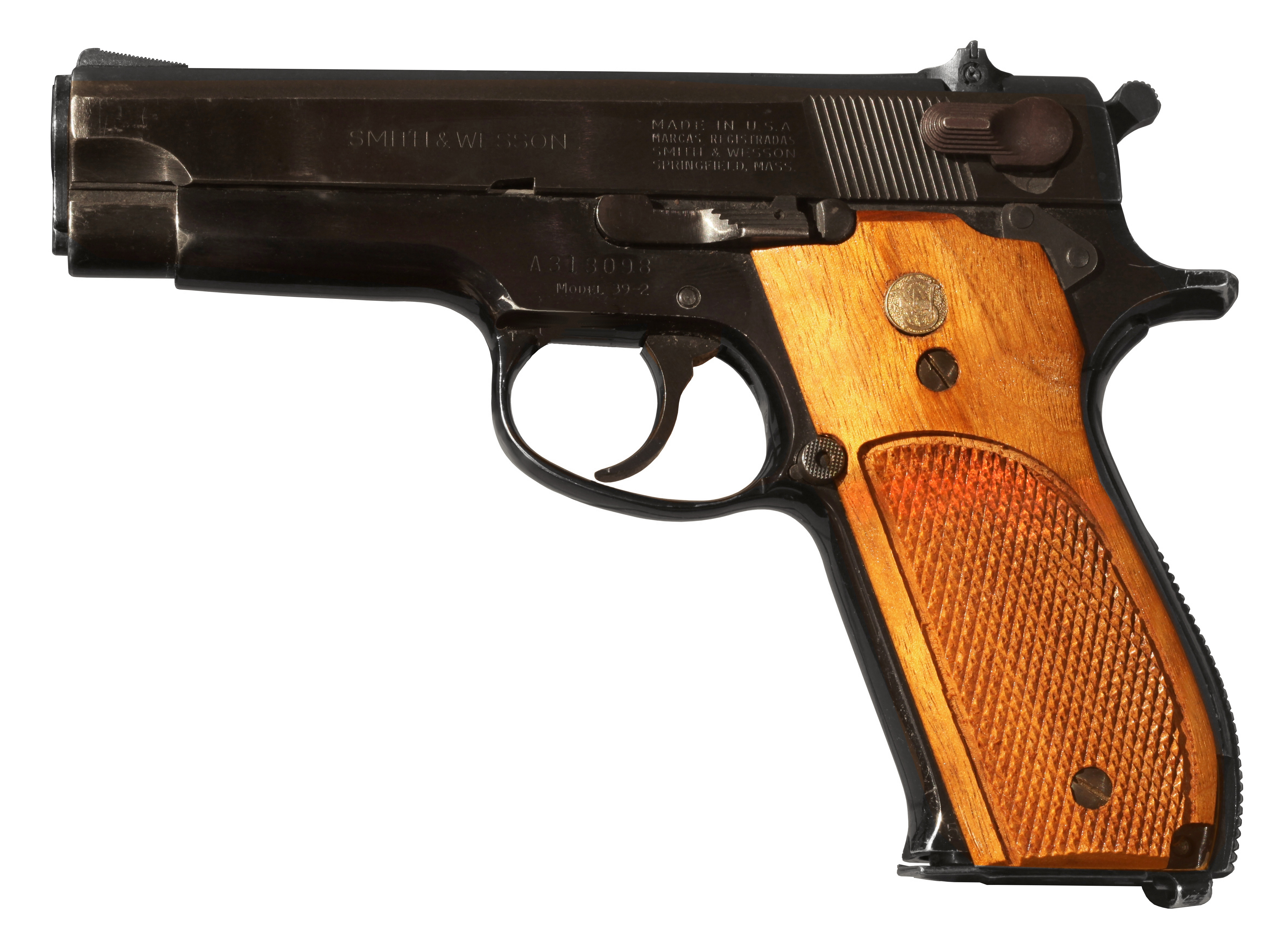 Smith & Wesson Model 39. On display at Morges military museum.